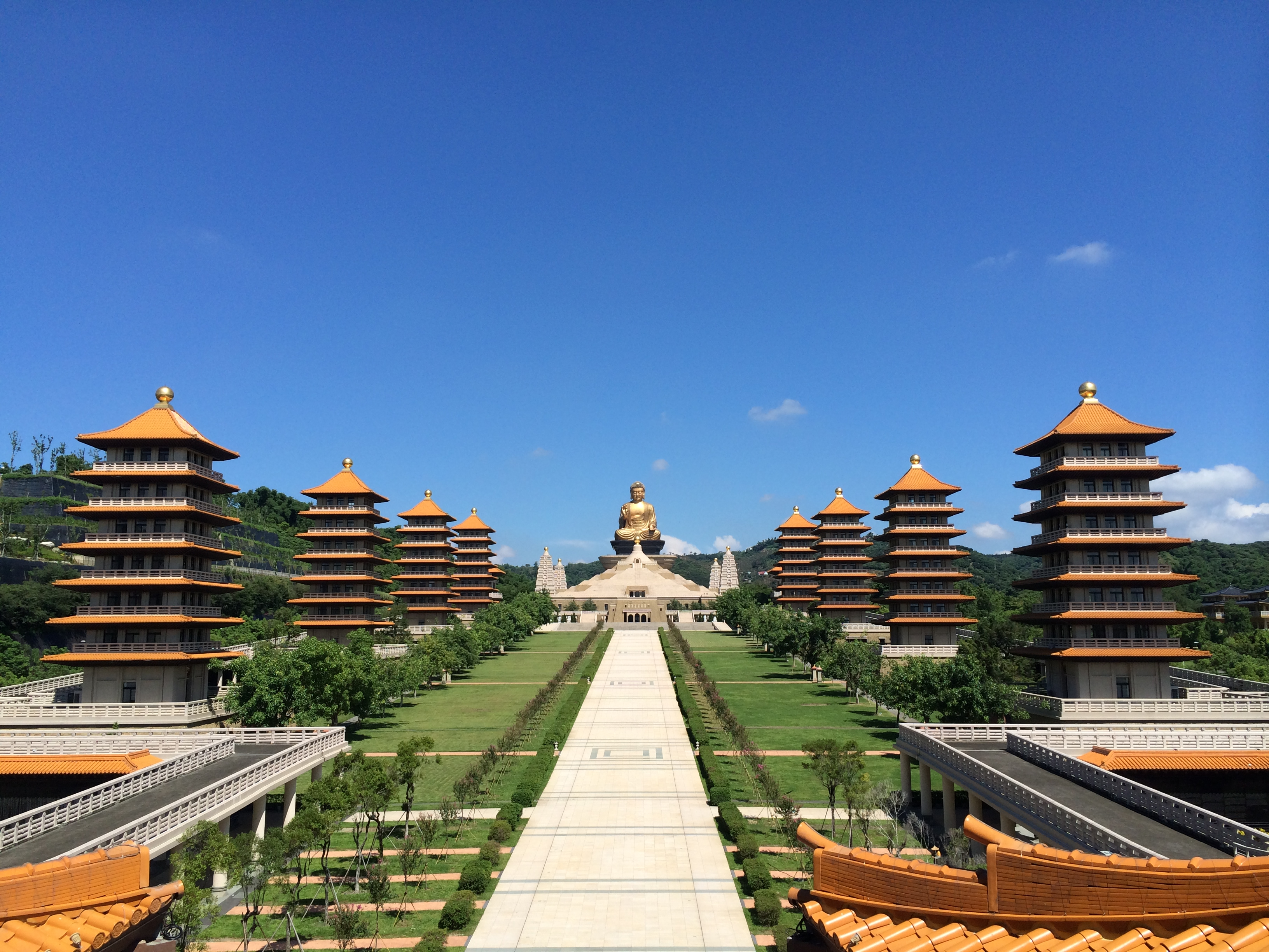 Big Buddha and Eightfold Path Pagodas of Fo Guang Shan Buddha Memorial Center